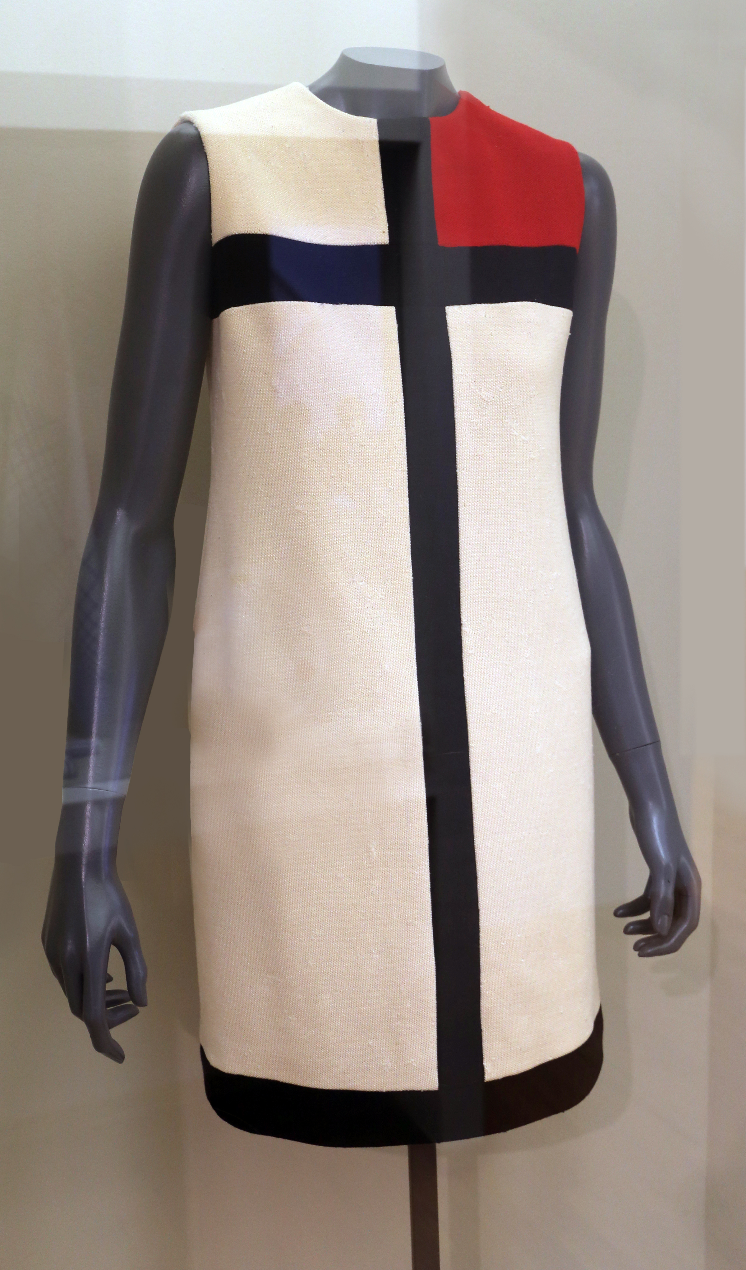 Textiles in the Gemeentemuseum Den Haag